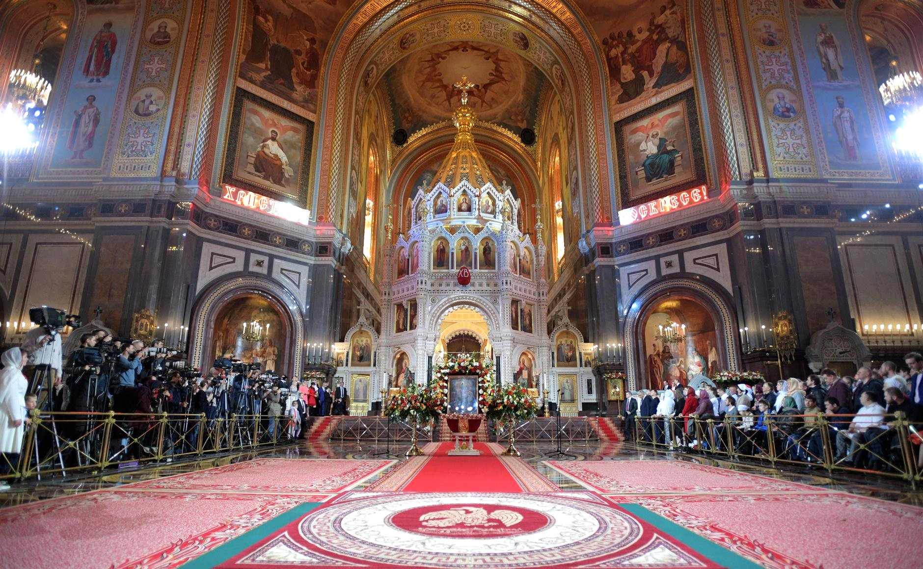 Easter service in the Cathedral of Christ the Saviour in Moscow, Russia, 2017-04-16